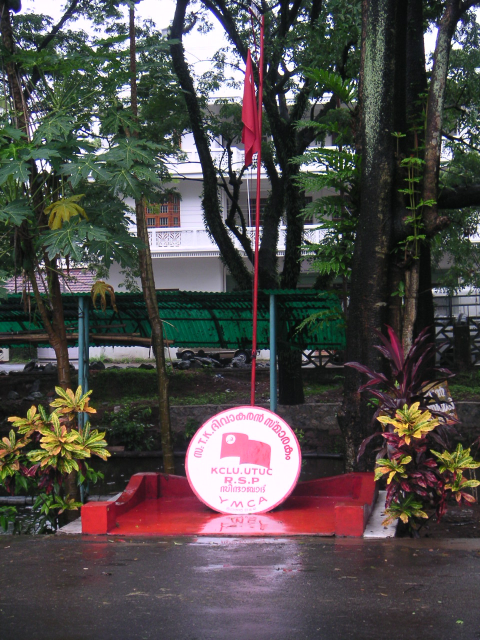 Revolutionary Socialist Party-United Trade Union Congress flagpole in Allepey, Kerala. Photo: Soman